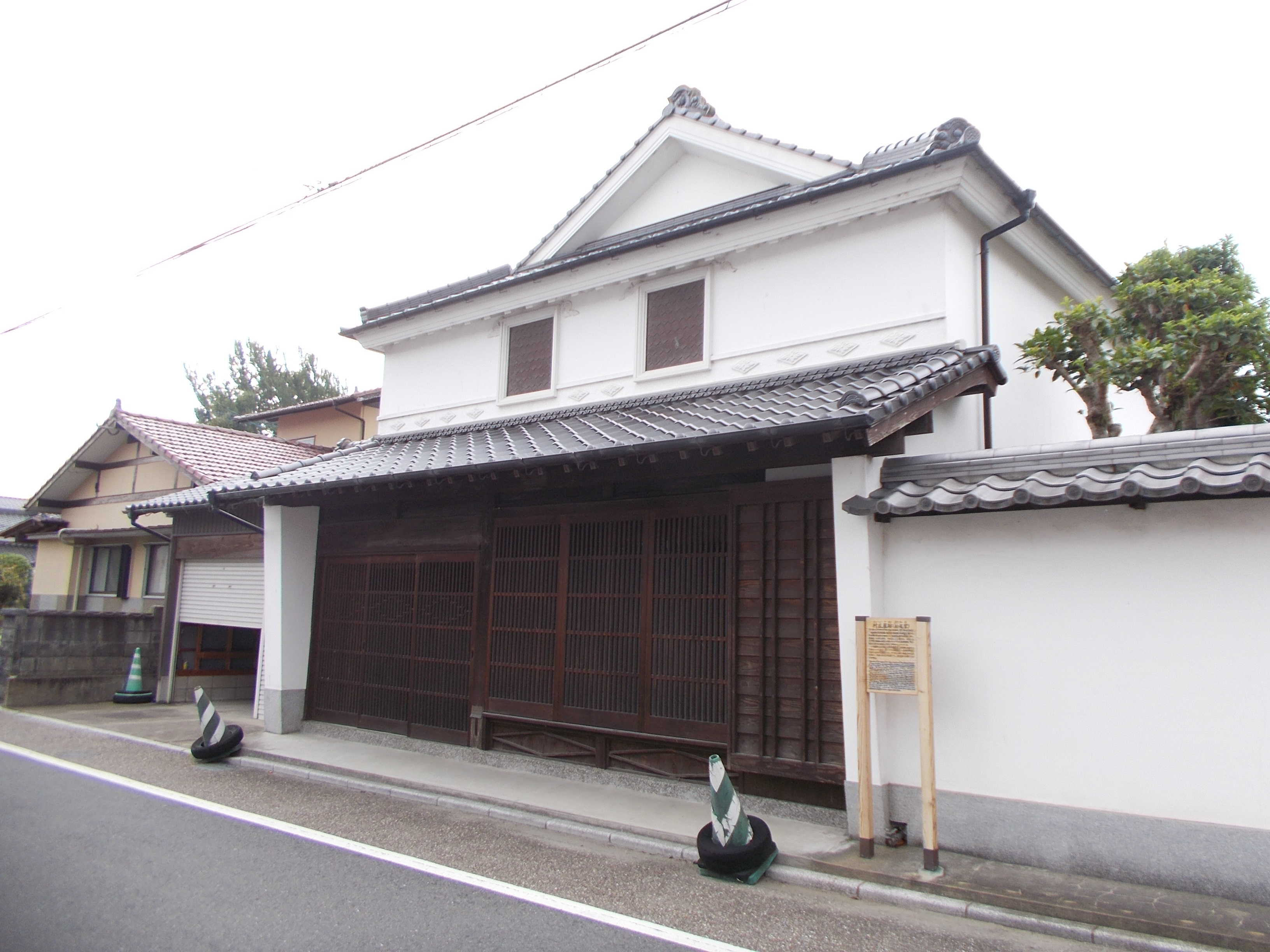 The site of Mura-shoya (村庄屋跡 = the house of the village headmen) in Koyanose-juku on the Nagasaki Kaido, Yahatanishi-ku, Kitakyushu, Japan.